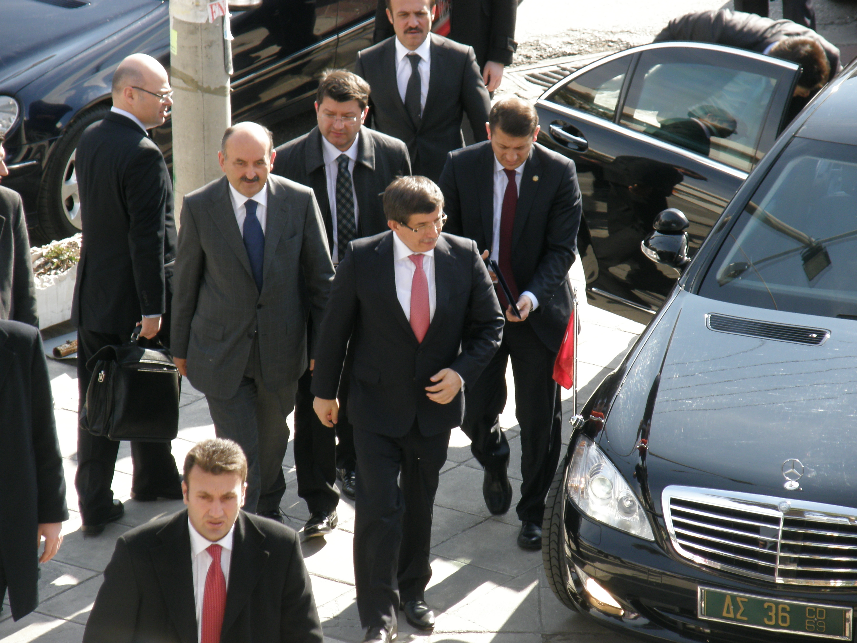 Turkish Foreign Minister Ahmet Davutoglu in Western Thrace, Greece.